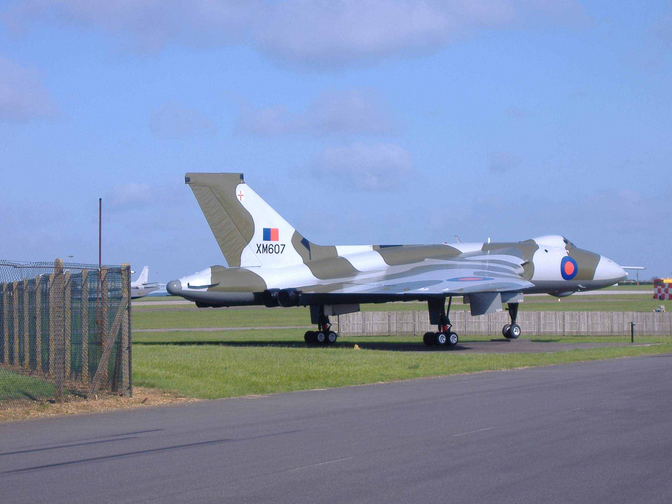 A.V. Roe Vulcan XM607, pictured at Waddington.